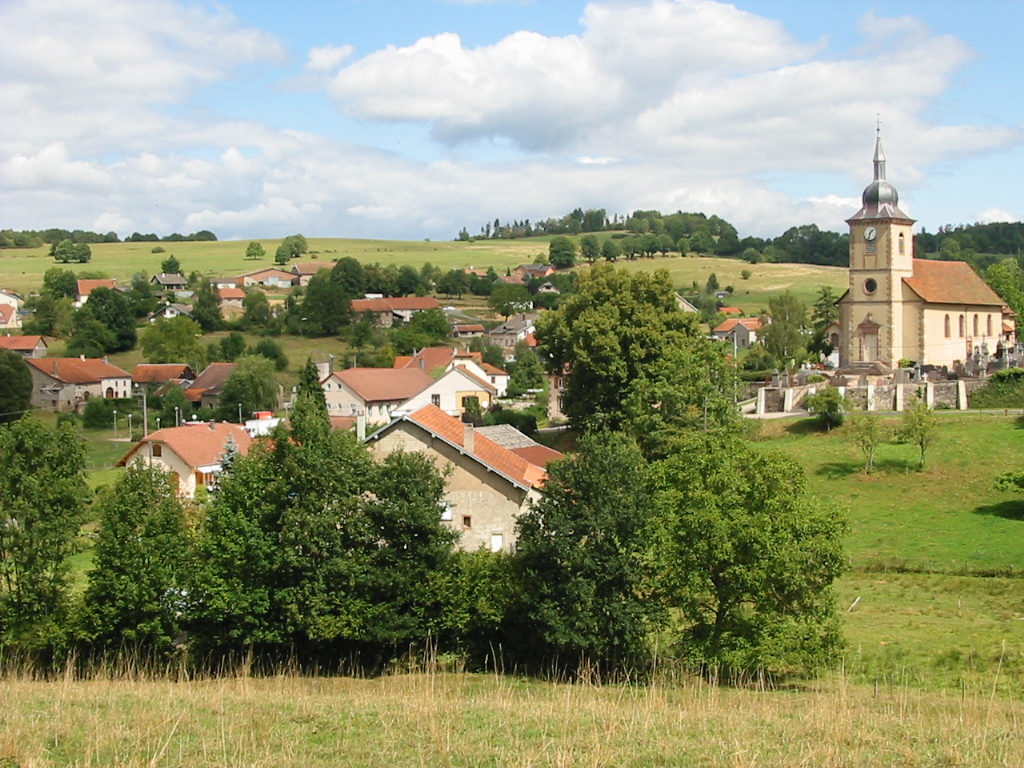 Entre-deux-Eaux is a village and commune in the Vosges, département of northeastern France.